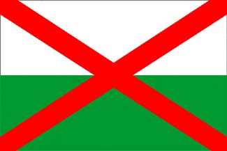 Admiral Kolchak (flag)